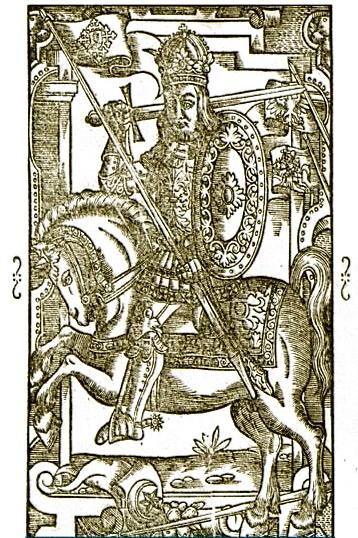 Mindaugas, King of Lithuania, as depicted in medieval chronicles